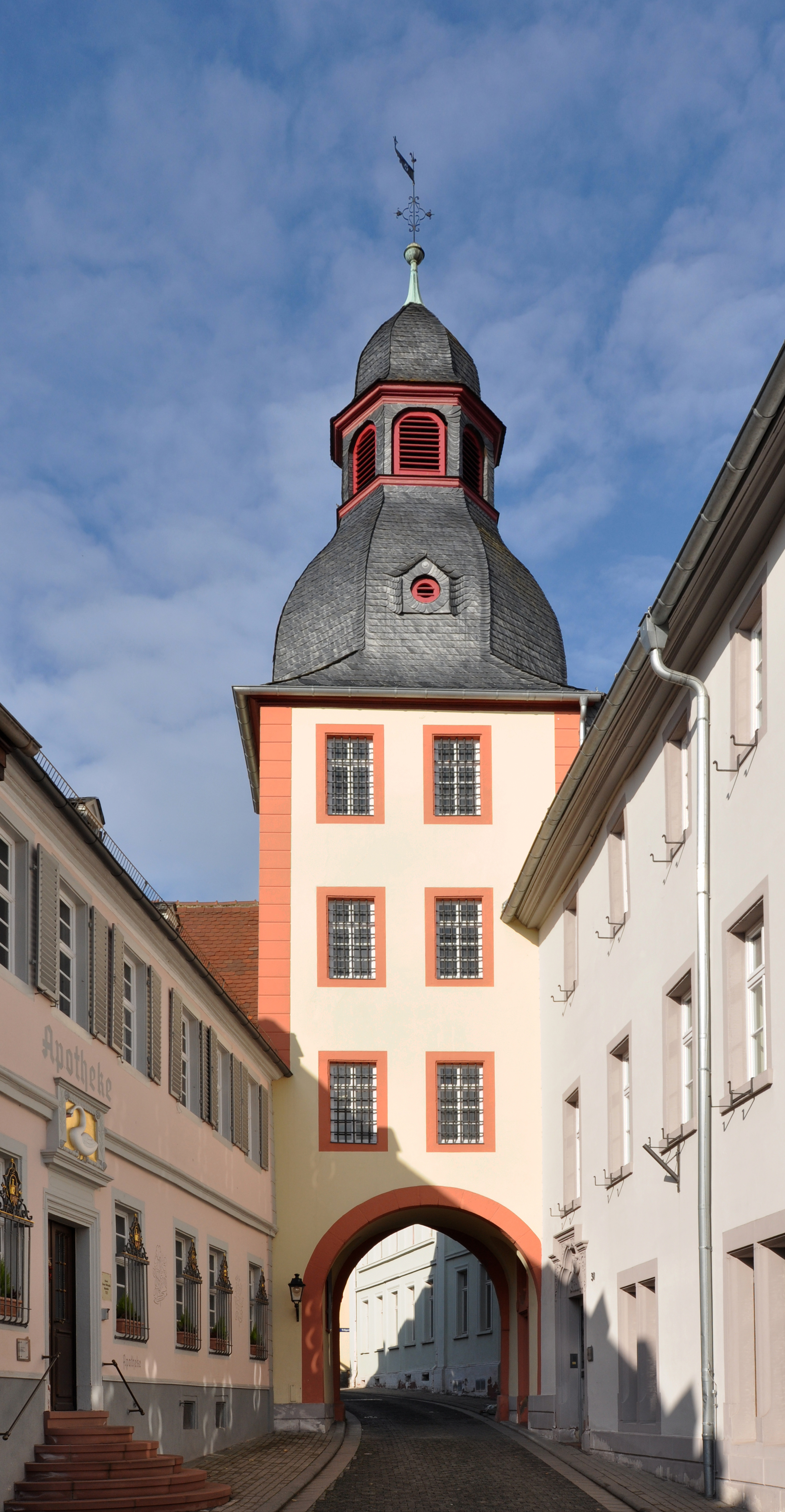 Kirchheimbolanden, upper town gate tower